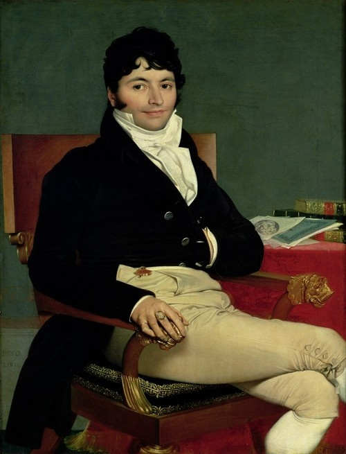 Portrait of Monsieur Rivière